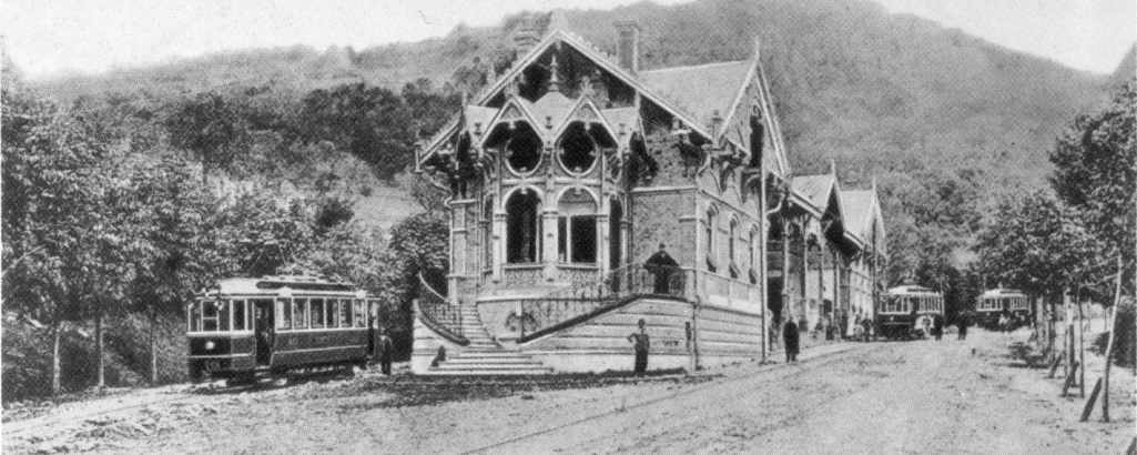 Old tramstation 1909, Zugliget, Budapest, Hungary